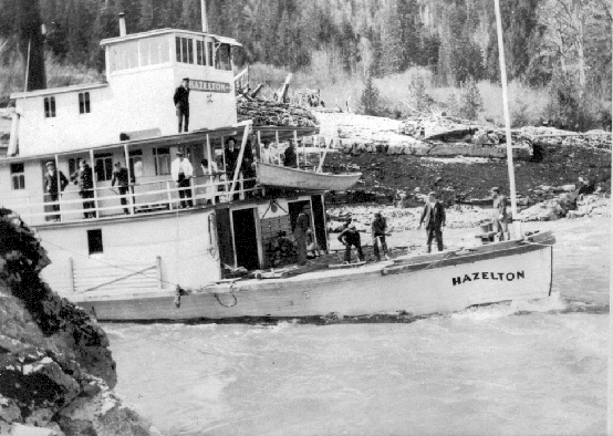 Photographer Unknown Photo taken 1900 Source BC Archives # B-03838 [1]